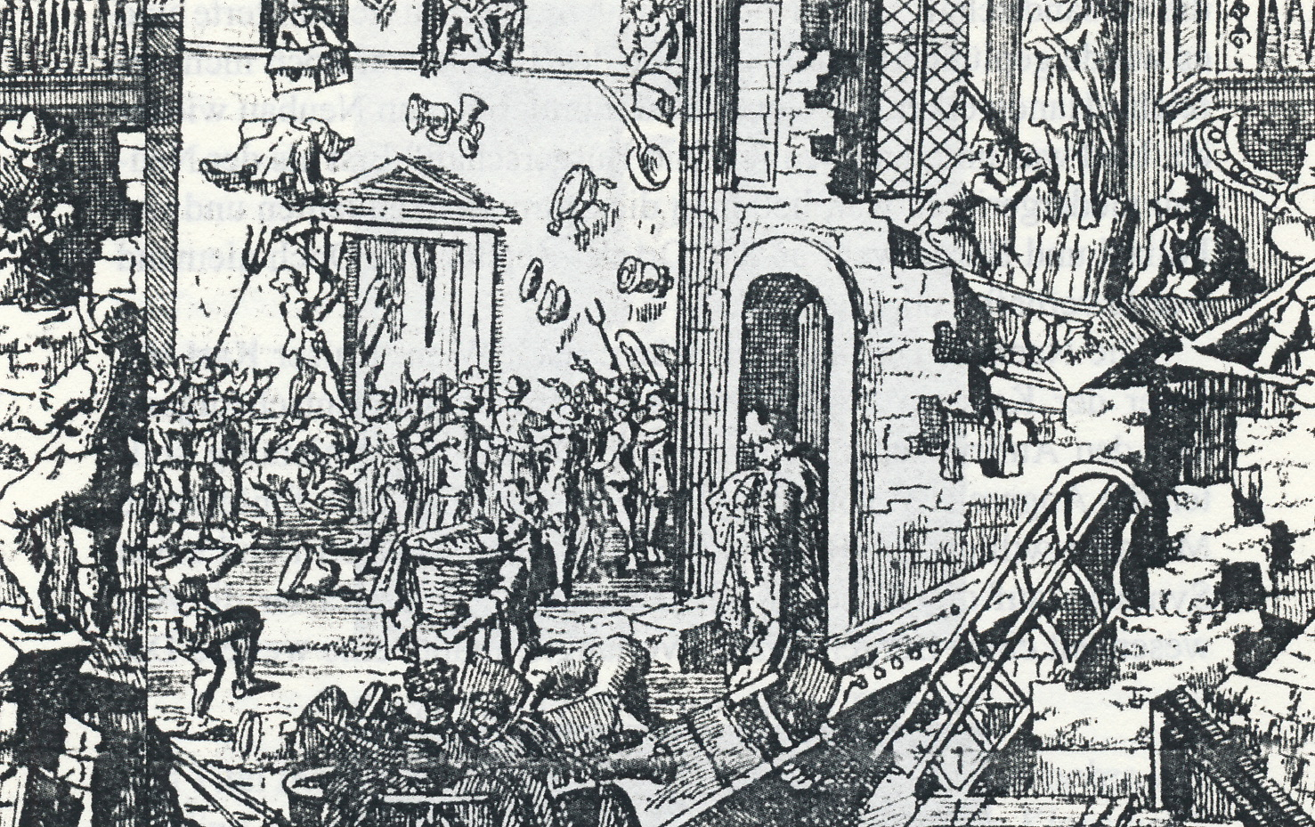 Lutheranians in Hamburg storming the Catholic Chapel of Emperor Charles VI'th Envoy